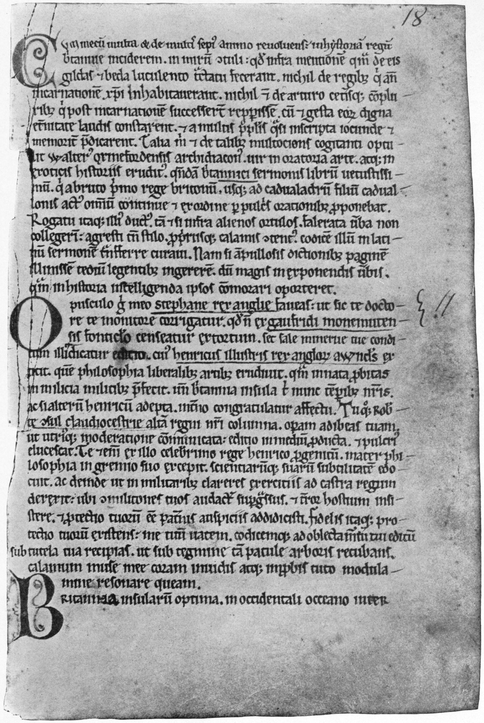 Geoffrey of Monmouth, Historia regum Britanniae, dedication. Bern, Burgerbibliothek 568, fol. 18r.